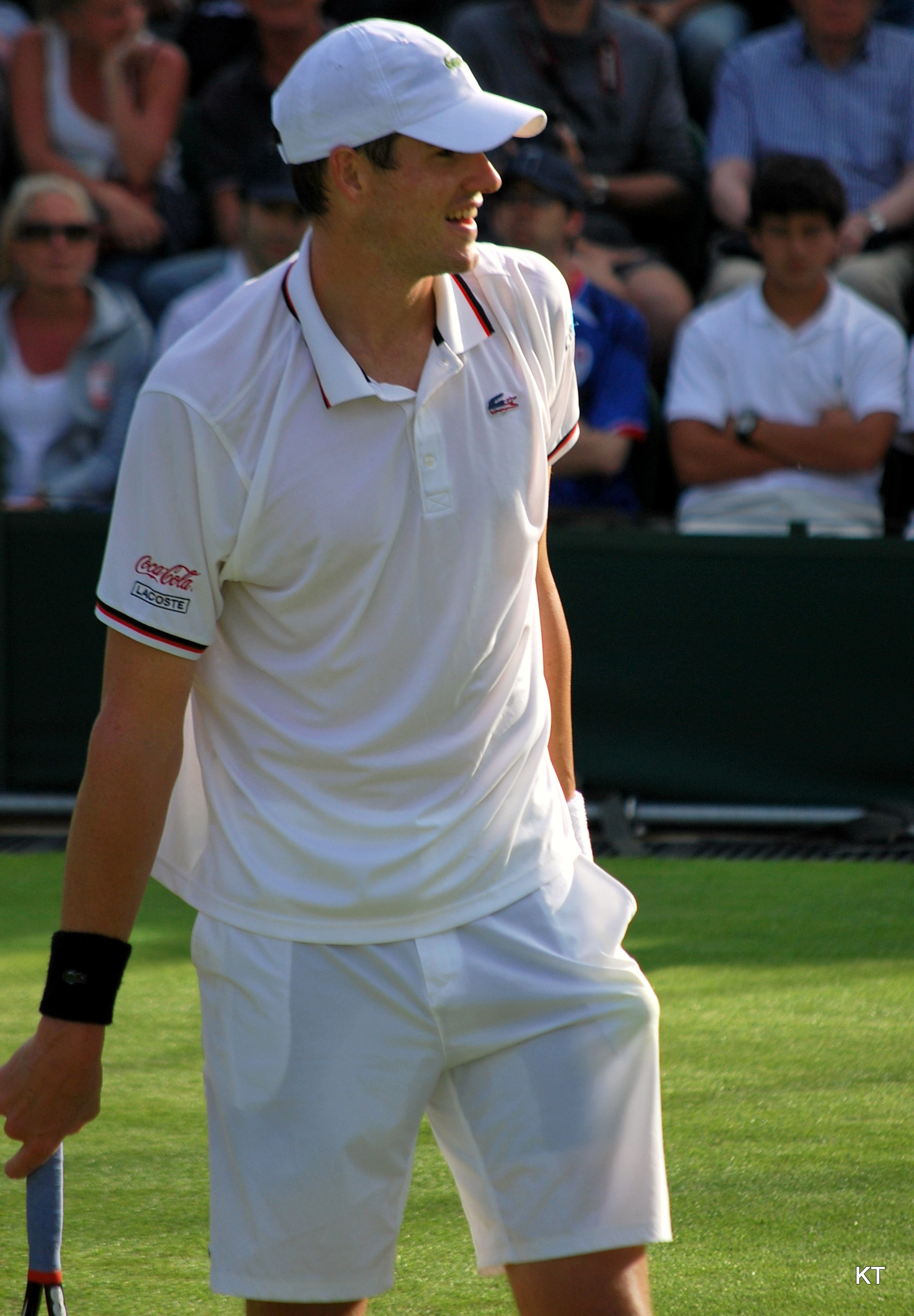 John Isner during his first round match with Alejandro Falla on Day 1 of Wimbledon 2012. Falla won in 5 sets: 6-4, 6-7, 3-6, 7-6, 7-5.